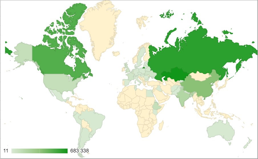 Production of linseeds in the world in 2017 (tonns)